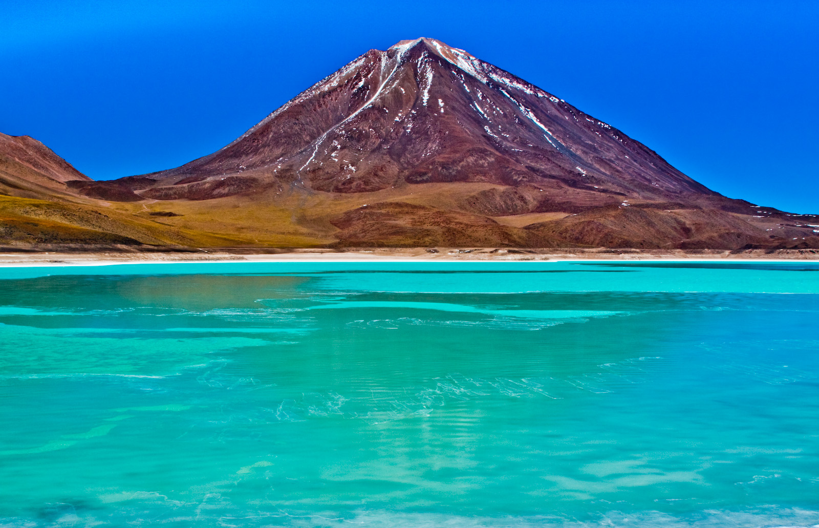 The Laguna Verde (Green Lagoon) is a salt lake in the southwest of the altiplano of Bolivia, on the Chilean border at the foot of the volcano Licancabur. Its colour is caused by sediments, containing copper minerals. It is elevated some 4,300 m (14,000 ft) above sea level.